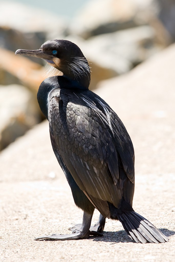 Brandt's Cormorant